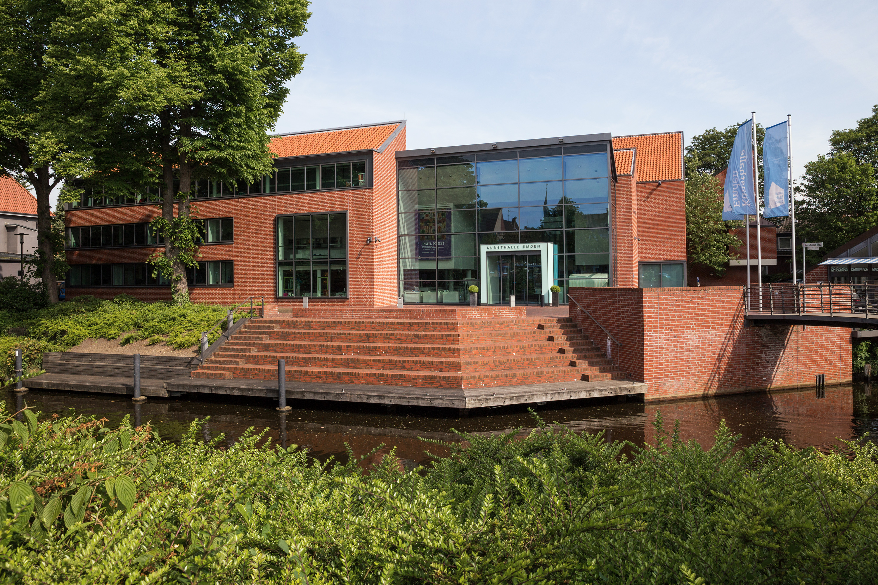 Emden, Kunsthalle (art gallery)